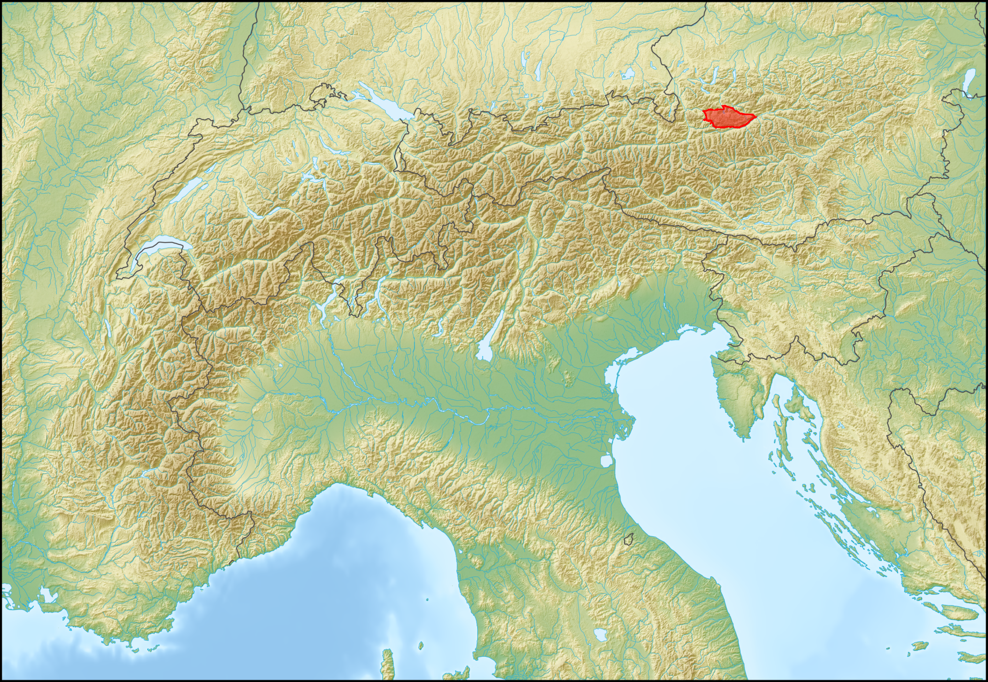 Dachstein Mountains location (red) in the Alps.